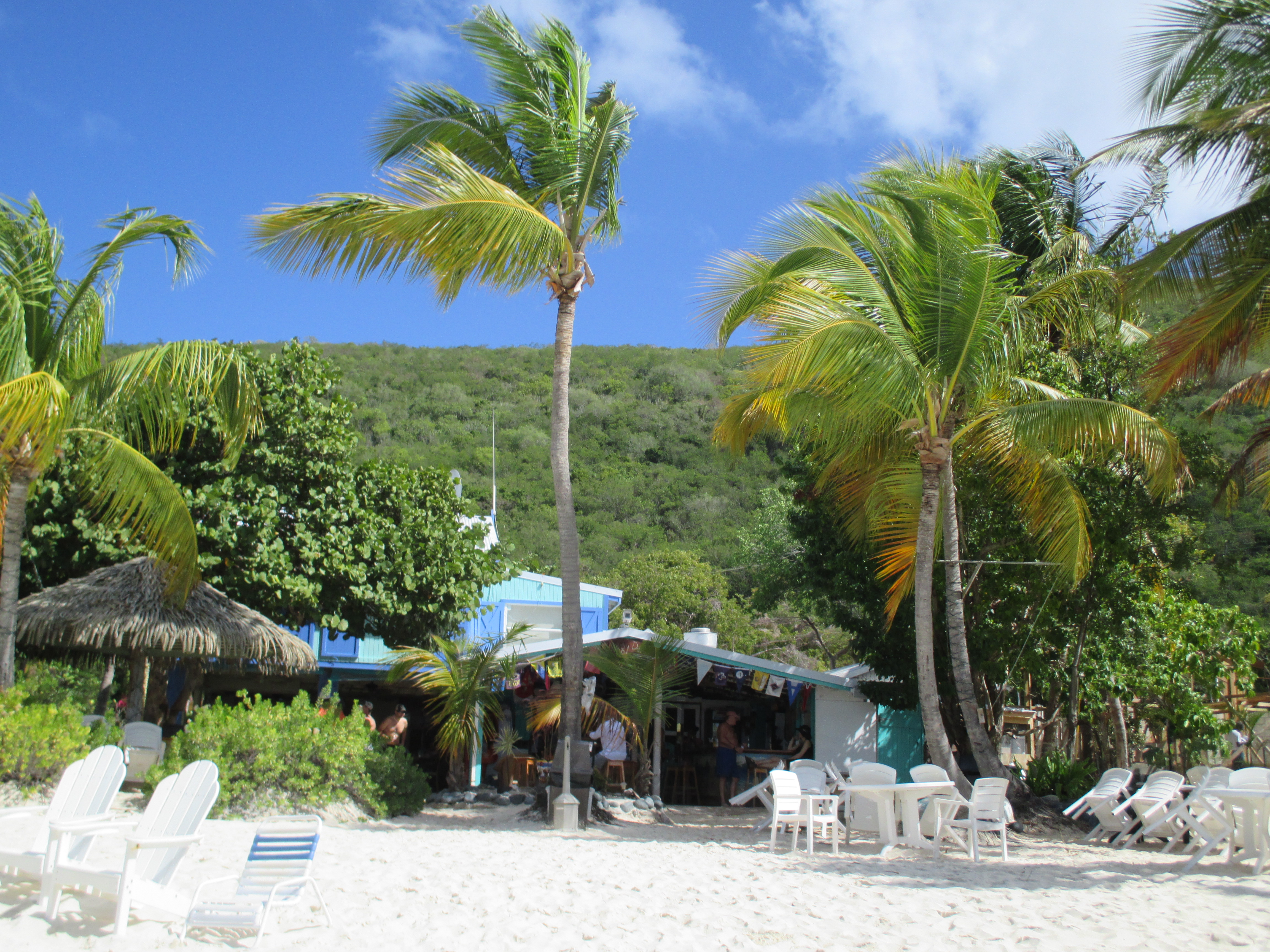 Beach bar „Soggy Dollar“